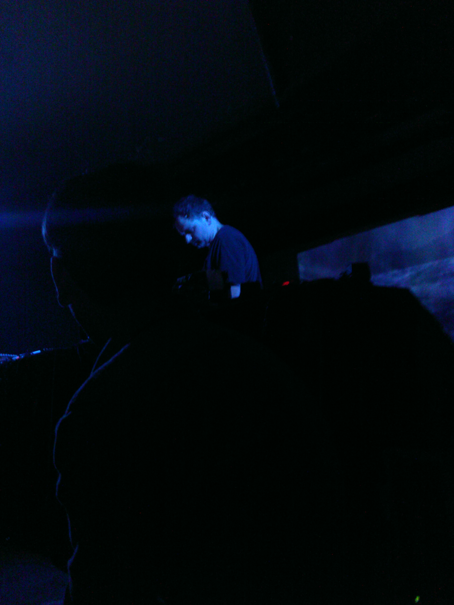 Stefan Knappe a.k.a. Baraka[H] of Troum (previously of Maeror Tri) performing in Saint Petersburg.